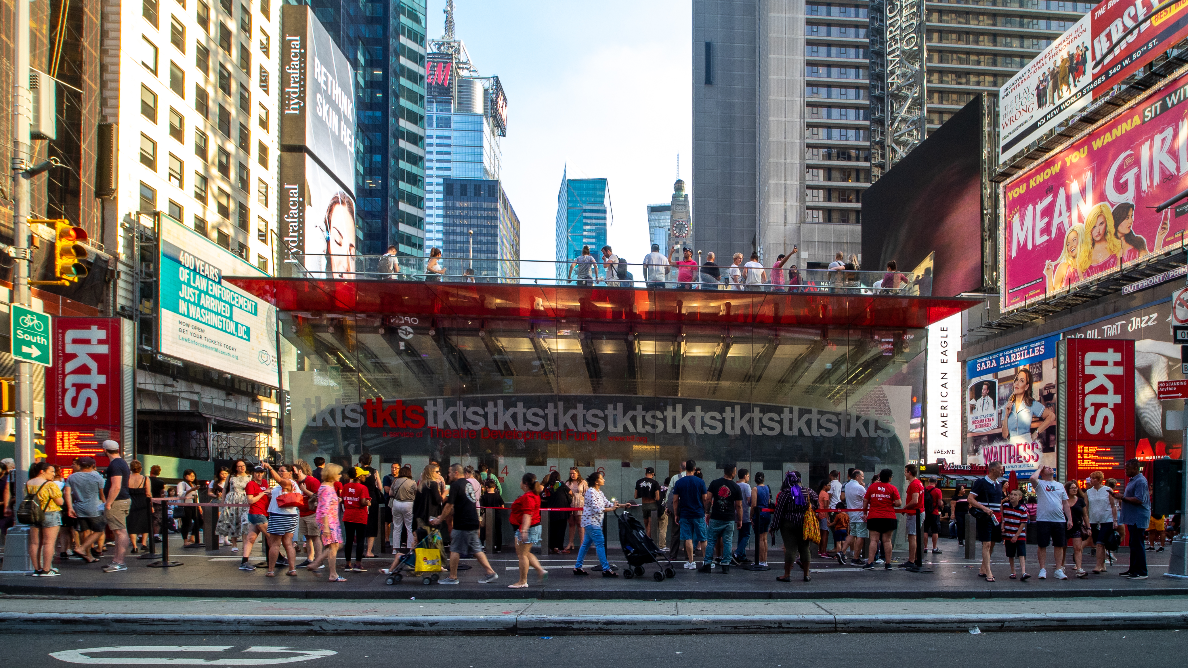 Theater District, Midtown Manhattan, NYC